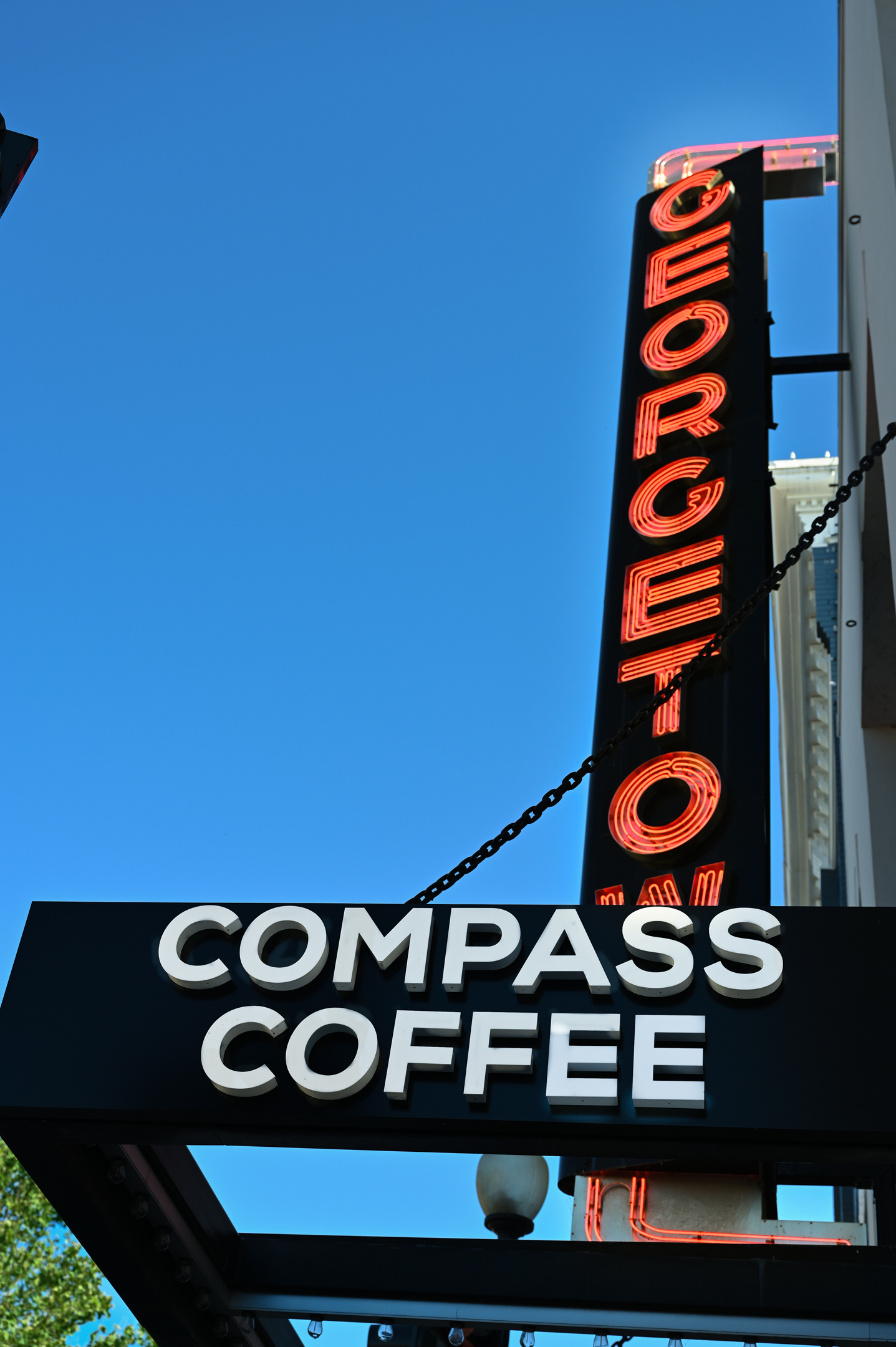 This theater has been a Georgetown staple and Compass Coffee renovated and repurposed the space.